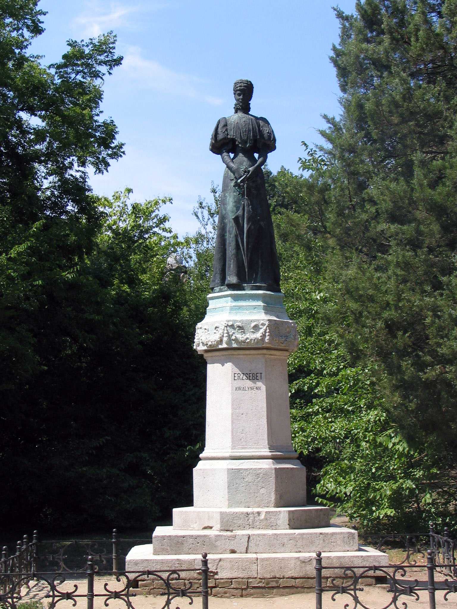 Monument of Elisabeth in Godollo (Hungary) Sculptor:József Róna (1901) This is a photo of a monument in Hungary, Identifier: 7060